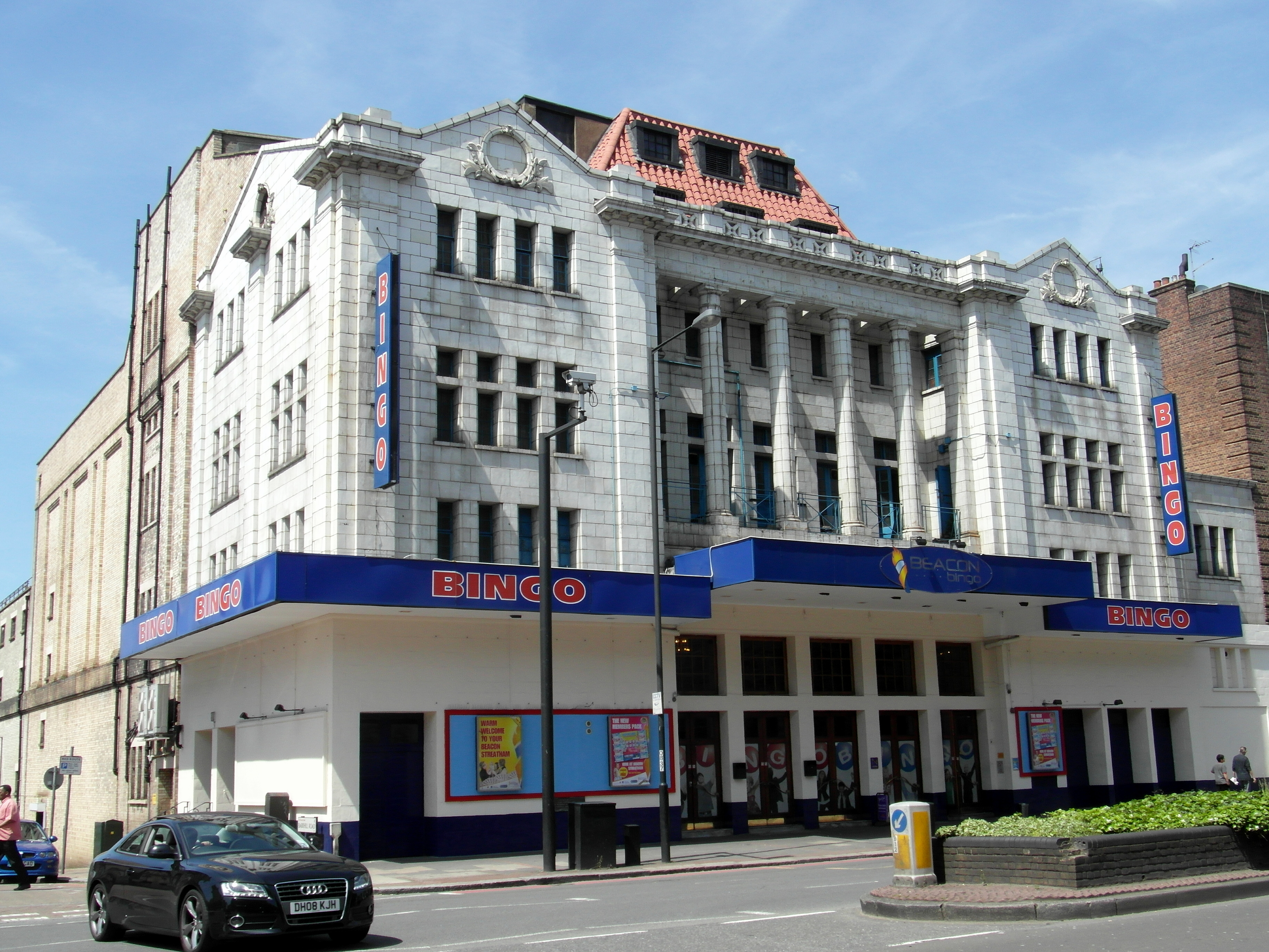 Streatham Hill, Streatham. Opened in 1929, it closed in 1962 and was converted to a bingo hall. In 1944 it was hit by a V1 flying bomb and wasn't re-opened until 1950.